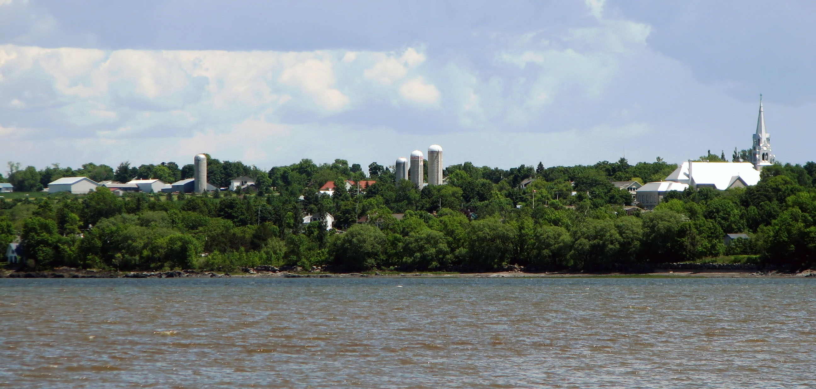 Village of Saint-Vallier, province of Quebec, Canada